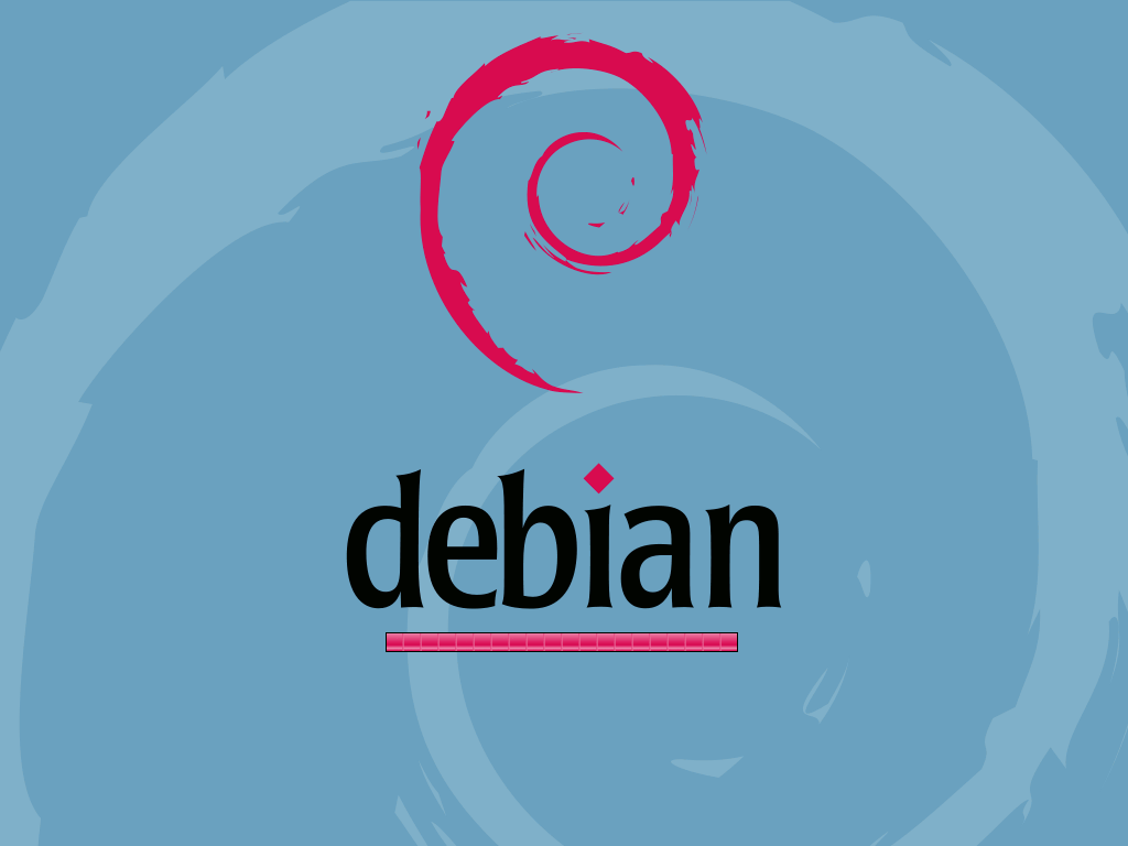 Screenshot of Usplash theme Debian Swirl